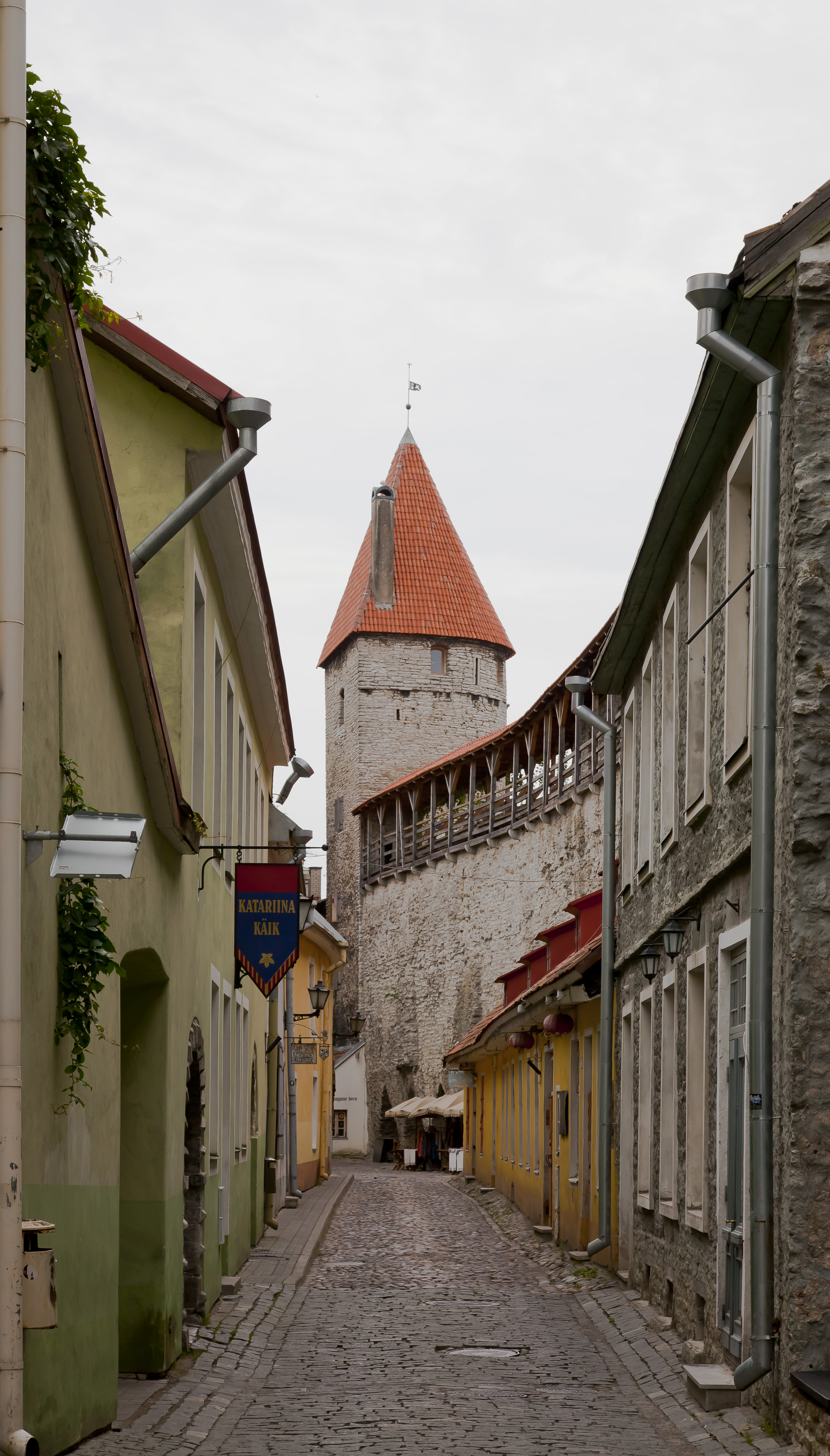 Müürivahe Street, Tallinn, Estonia